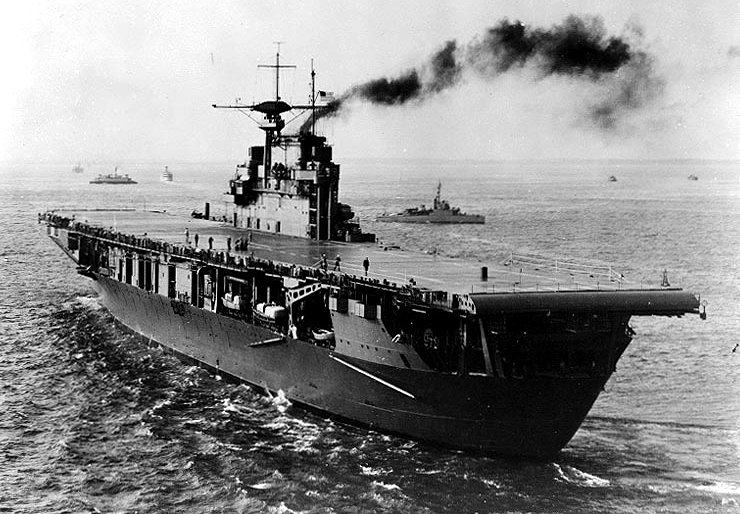 The U.S. Navy aircraft carrier USS Hornet (CV-8) photographed circa late 1941, soon after completion, probably at a U.S. East Coast port. A ferry boat and "Eagle Boat" (PE) are in the background.